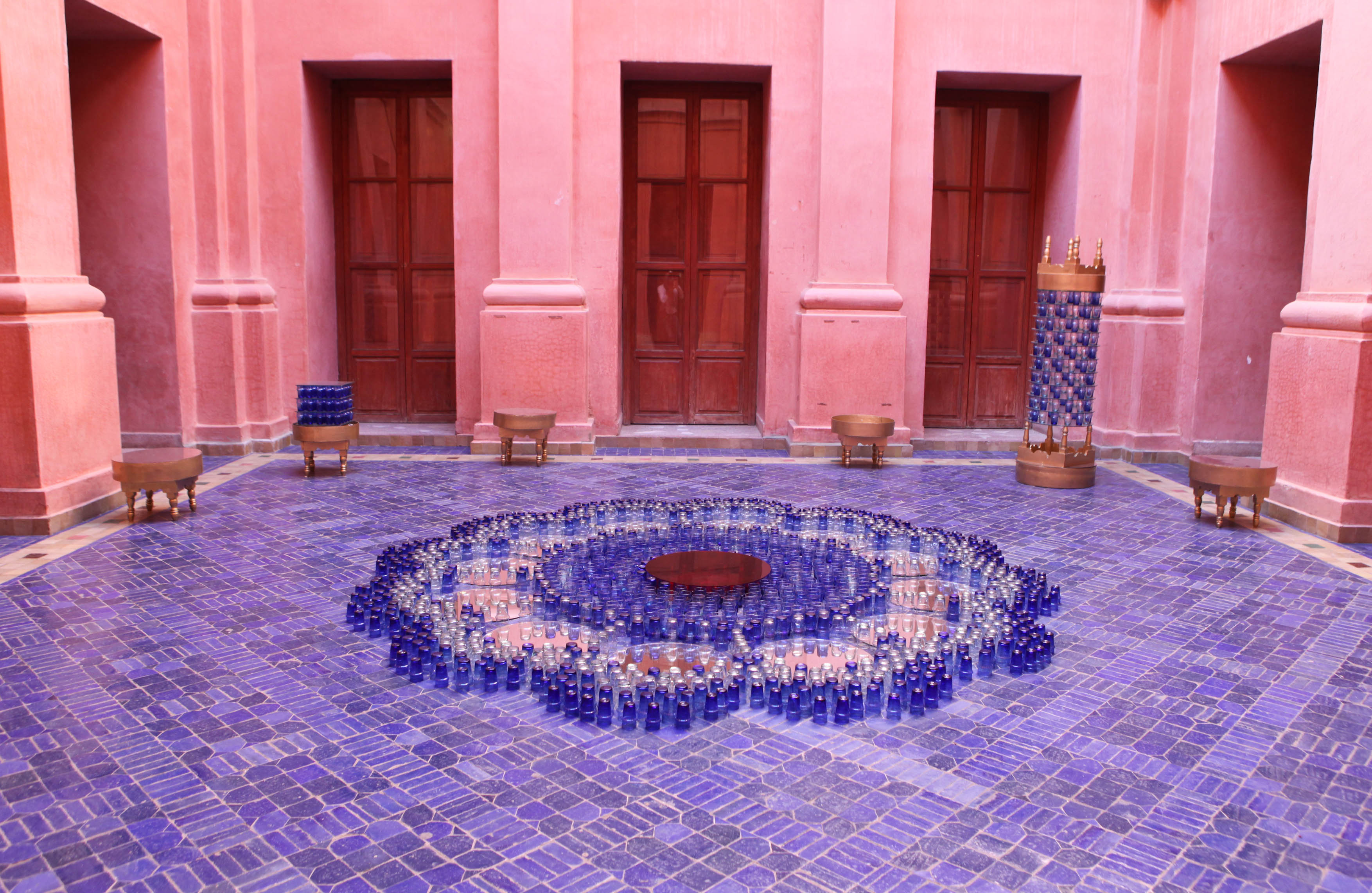 Art by Faouzi Laatiris for the 4th edition of the Marrakech Biennale. credit: r.v.wienskowski